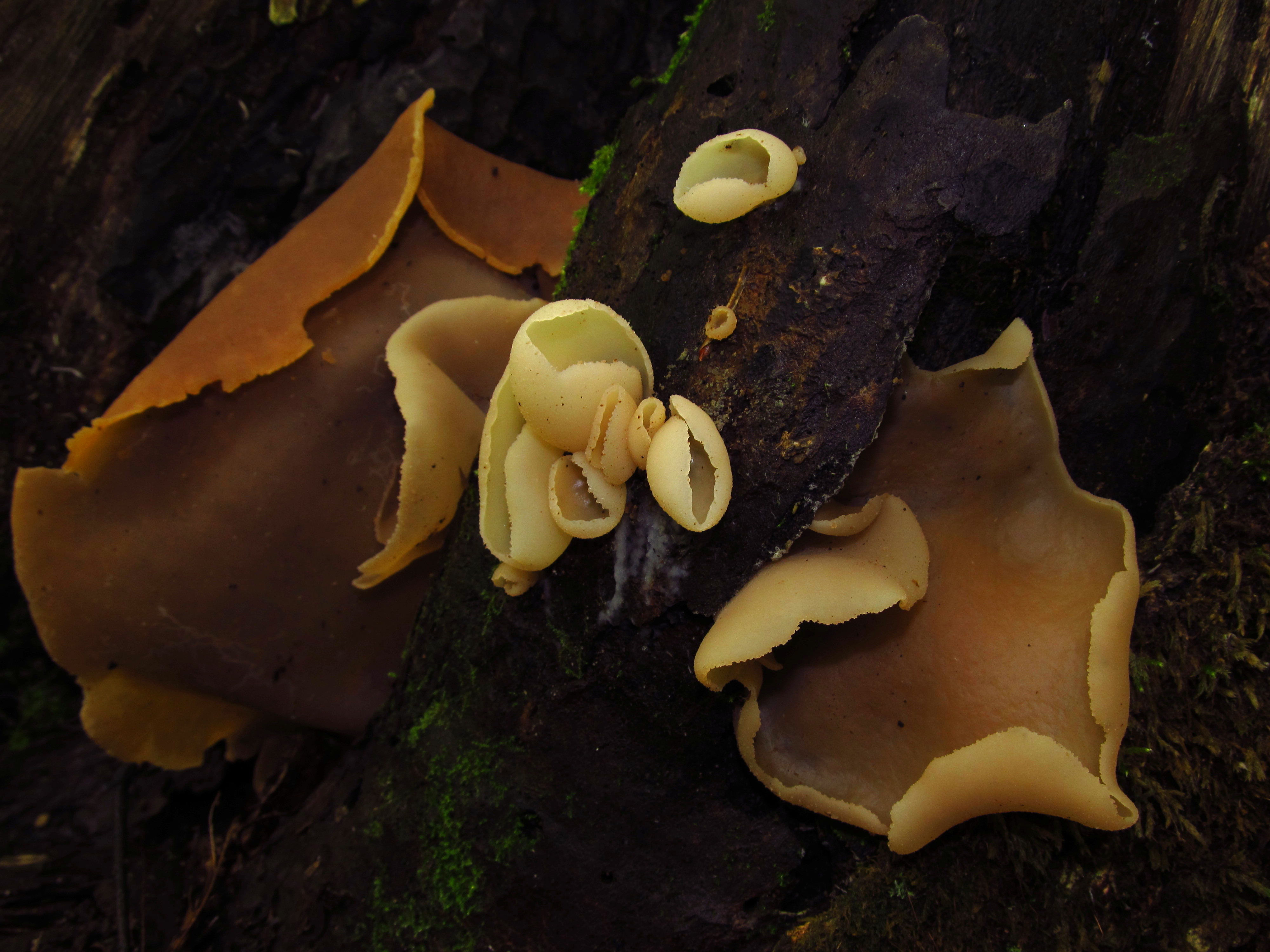 Peziza repanda Pers. Location: Liars Ridge Trail, Athens Conservancy, Athens Co., Ohio, USA For more information about this, see the observation page at Mushroom Observer.